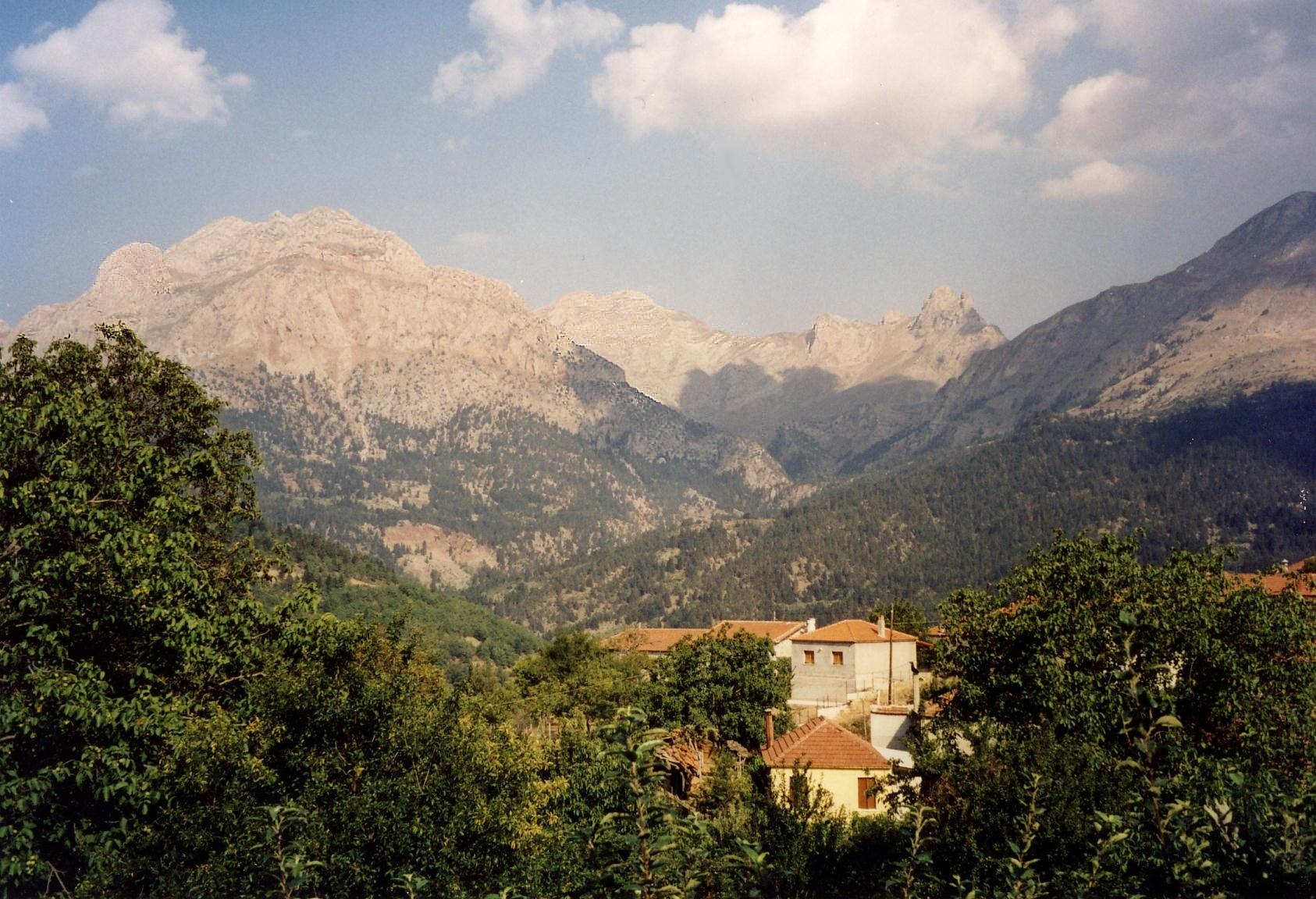 Mount Vardousia in Central Greece, with the summit of Korakas, as seen from the village of Artotina